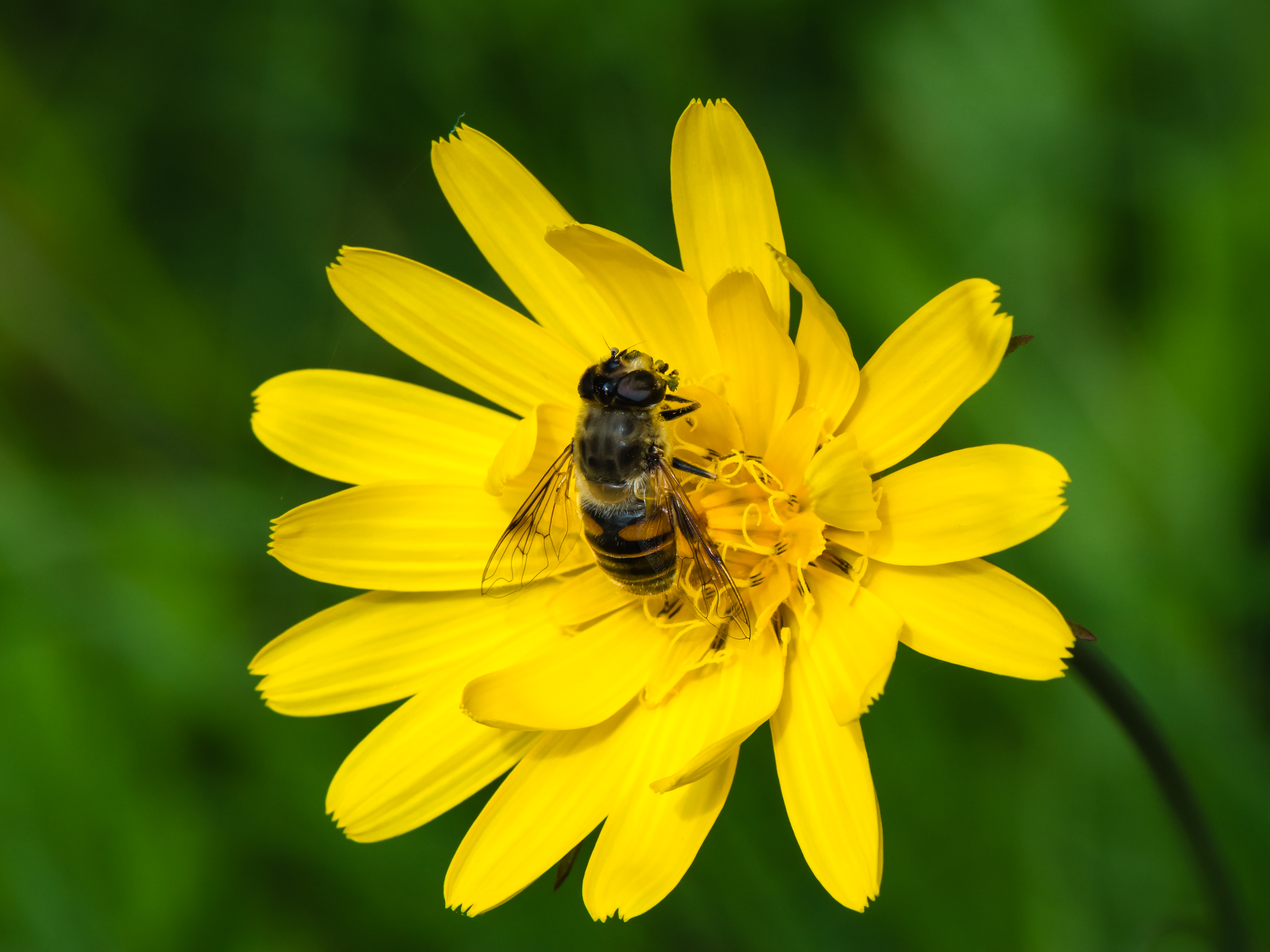 Drone fly (Eristalis tenax) on a Meadow Salsify (Tragopogon pratensis) flower